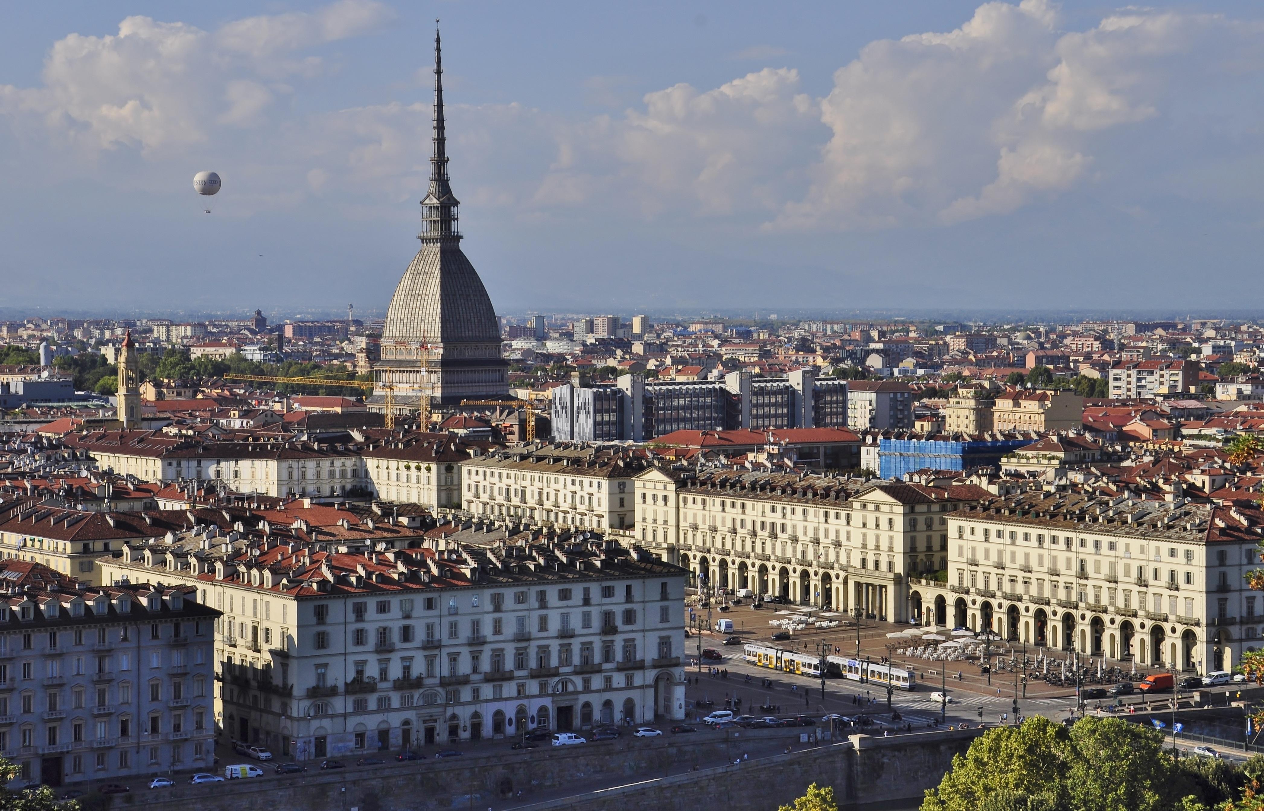 Torino Mole Piemonte Italy Landscape Travel